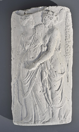 Cephalonia and Ithaca